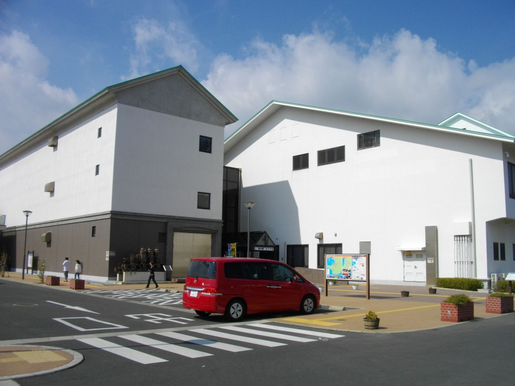 Nagisanoeki Tateyama